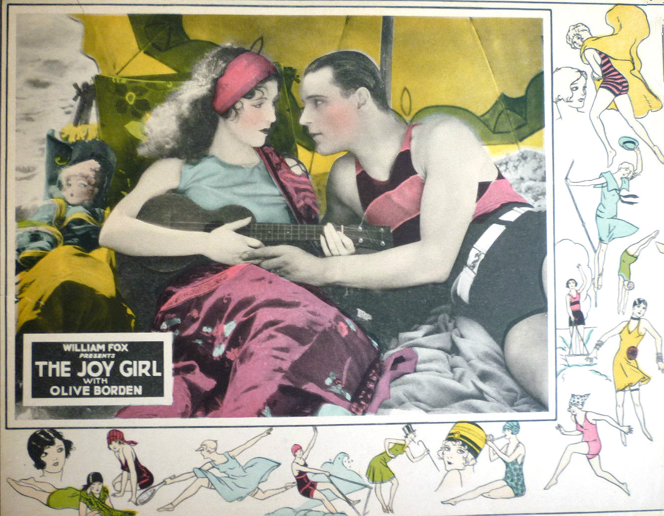 Lobby card for the American comedy film The Joy Girl (1927). A renewal search was done in both film and artwork for the years 1954 and 1955. There were no listings for the film title or Fox Films in either category. There's no evidence of continuing copyright on the film or its related material.